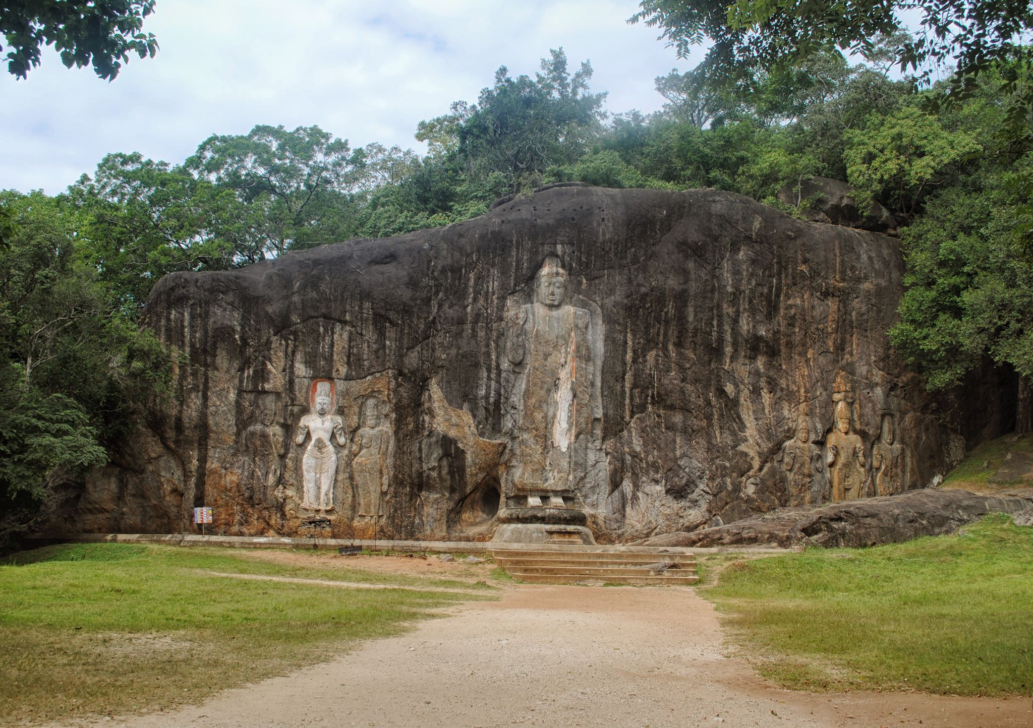 The name Buduruwagala is derived from the words for Buddha (Budu), images (ruva) and stone (gala) . The figures are thought to date from around the 10th century and belong to the Mahayana Buddhist school, which enjoyed a brief heyday in Sri Lanka during this time.